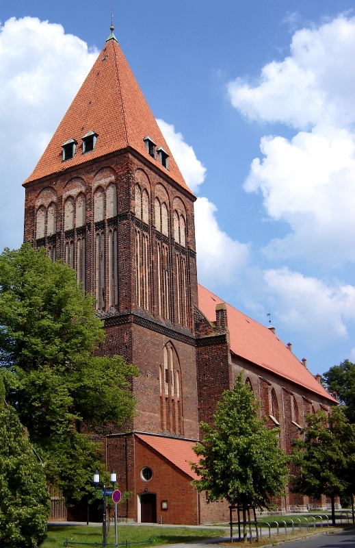 St. Jakobi Church of Greifswald, Germany